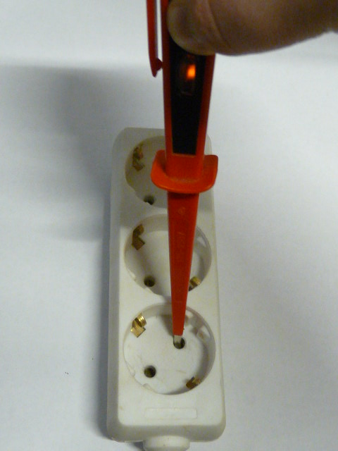 Phase wire detection